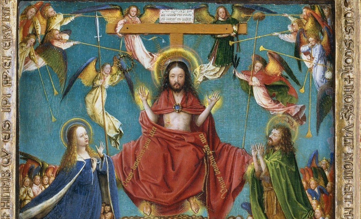 Crop of Crucifixion and Last Judgement diptych